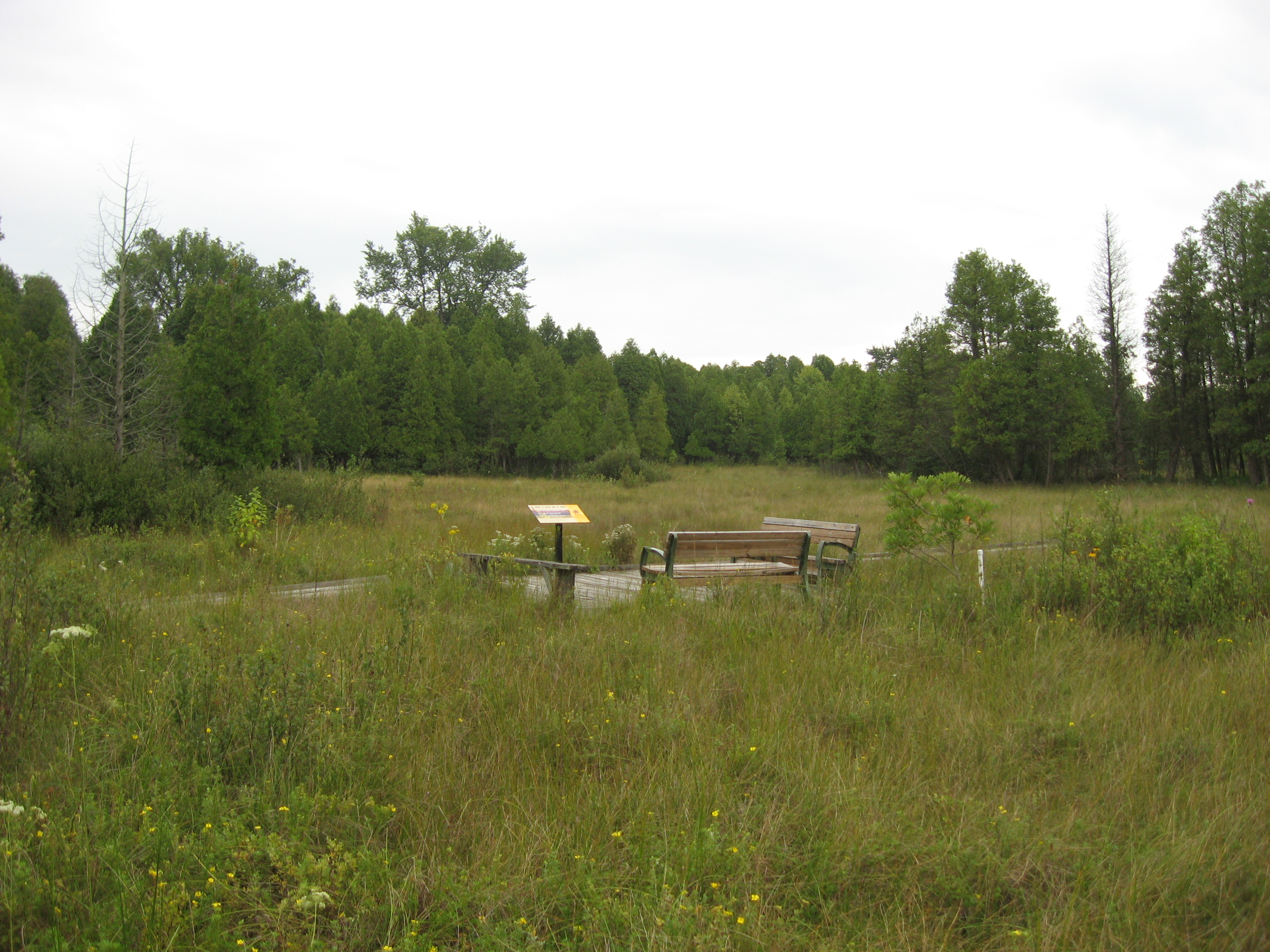 Trail crossing Cedar Bog. Cedar Bog, Champaign County, Ohio